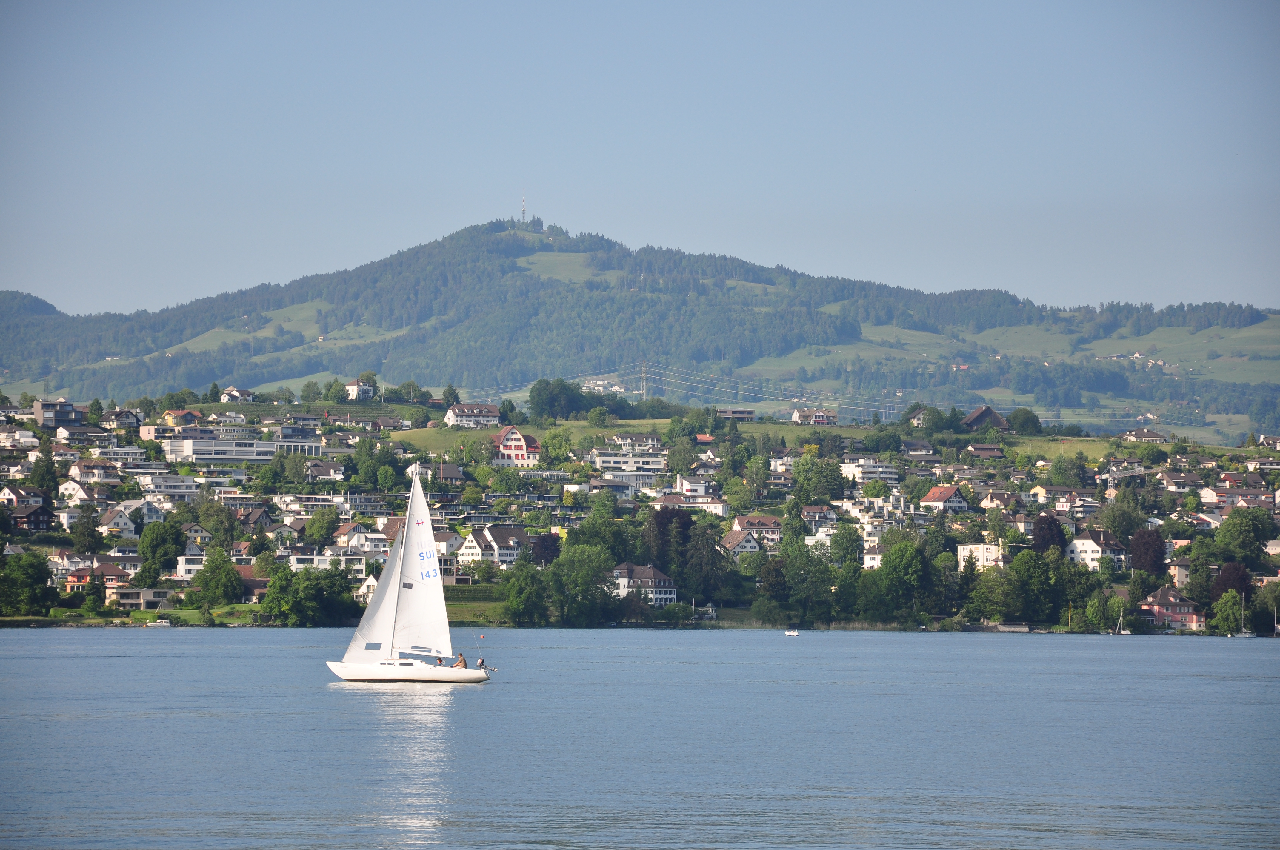 Kempraten and Bachtel mountain as seen from ZSG paddle steamer Stadt Zürich.